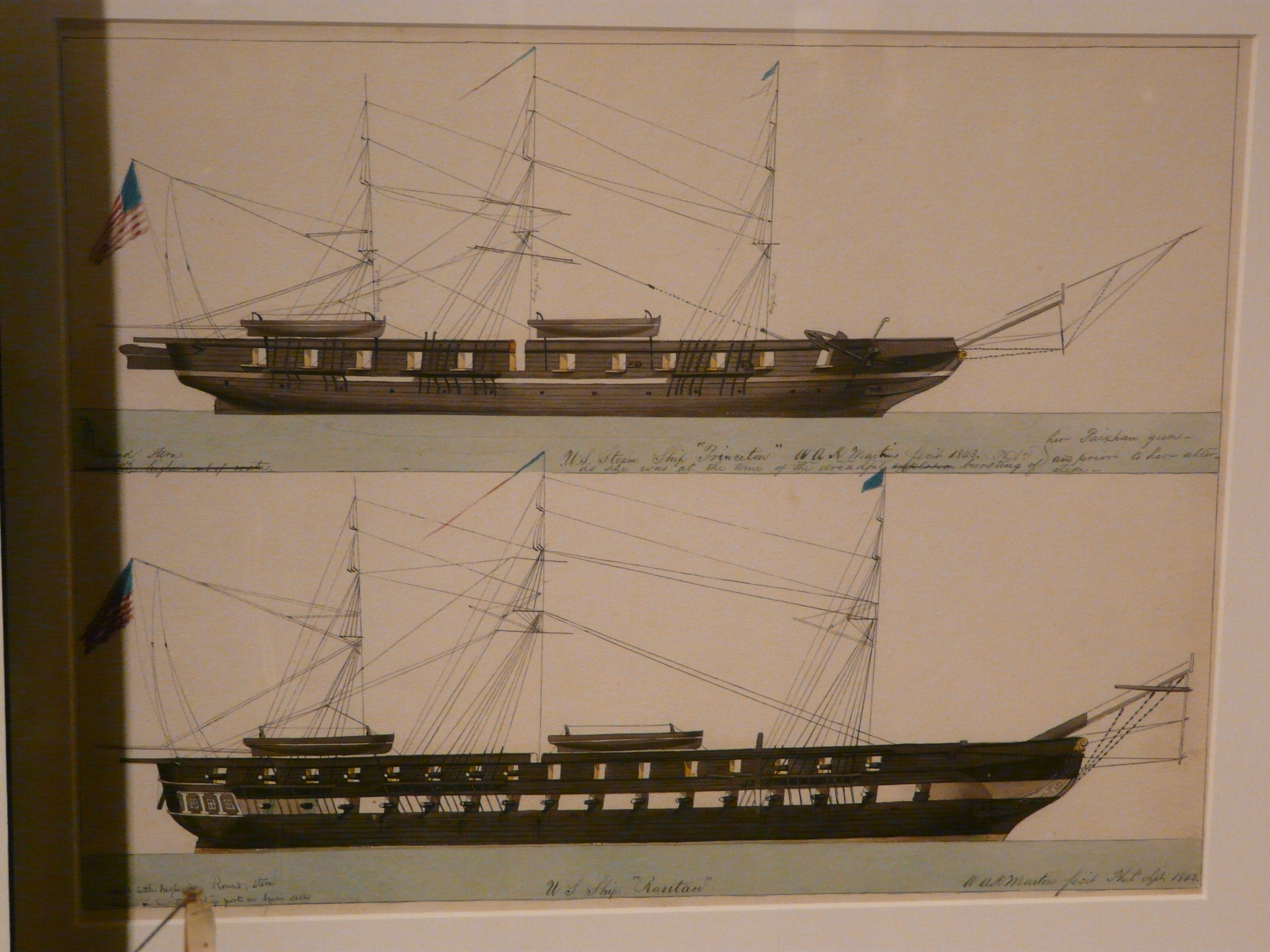 "US Steam Ship 'Princeton' and "US Ship 'Raritan'". W. A. K. Martin. Philadelphia. Watercolor and ink. September 1843. Independence Seaport Museum